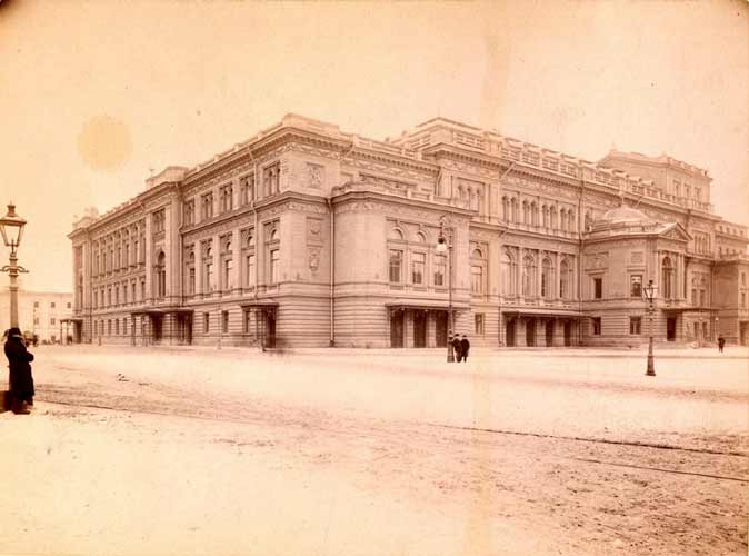 St Petersburg Conservatory